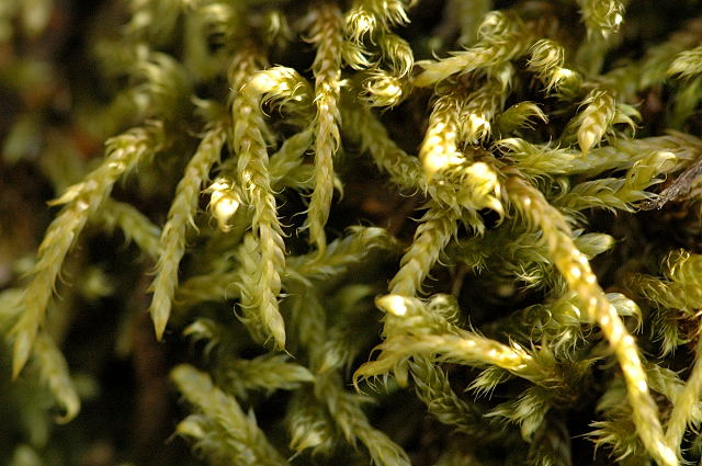 Hypnum jutlandicum in Commanster, Belgian High Ardennes.